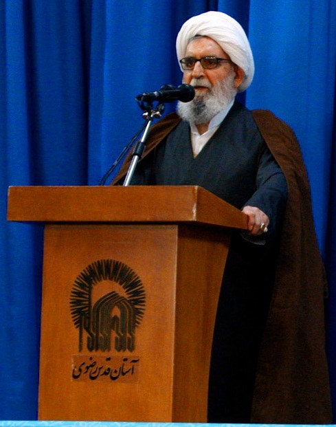 Abbas Vaez-Tabasi - oepning of Dar ul Marhama portico - Holu shrine of Imam Reza - Mashhad